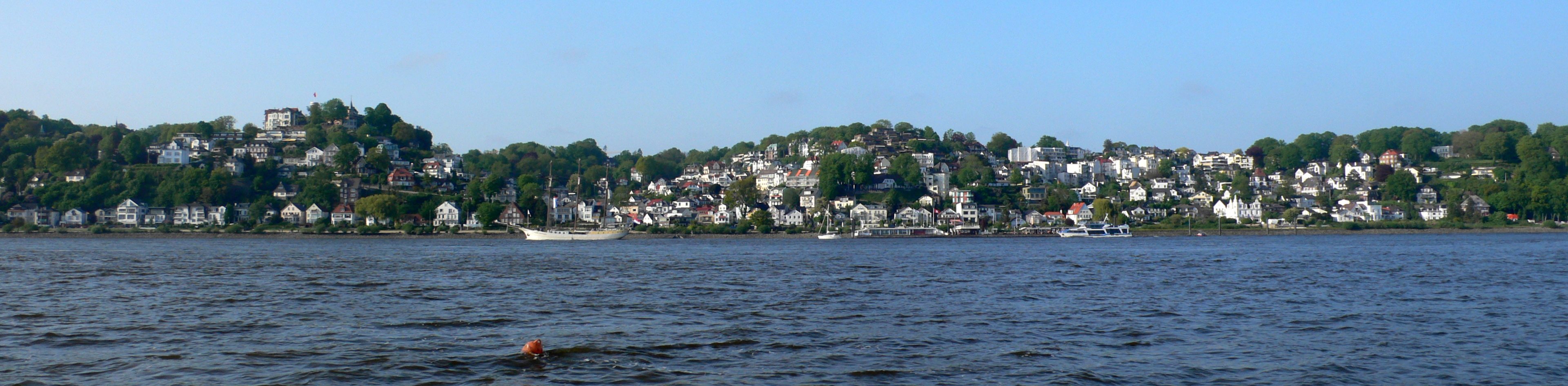 Blankenese - the beautiful suburb of the city of Hamburg at the river Elbe